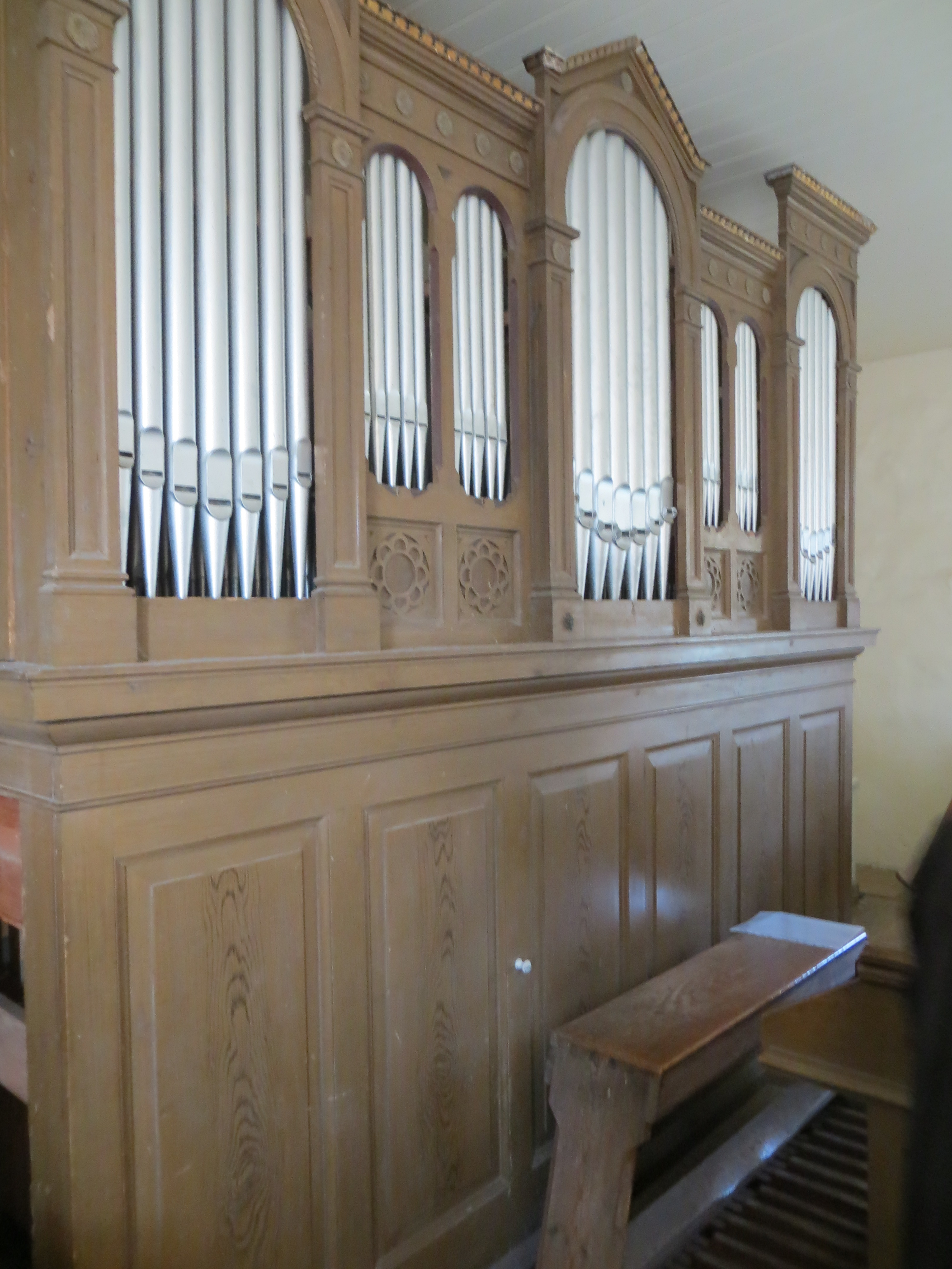 Sauer Organ at Petershagen Church, Maerkisch-Oderland, Brandenburg